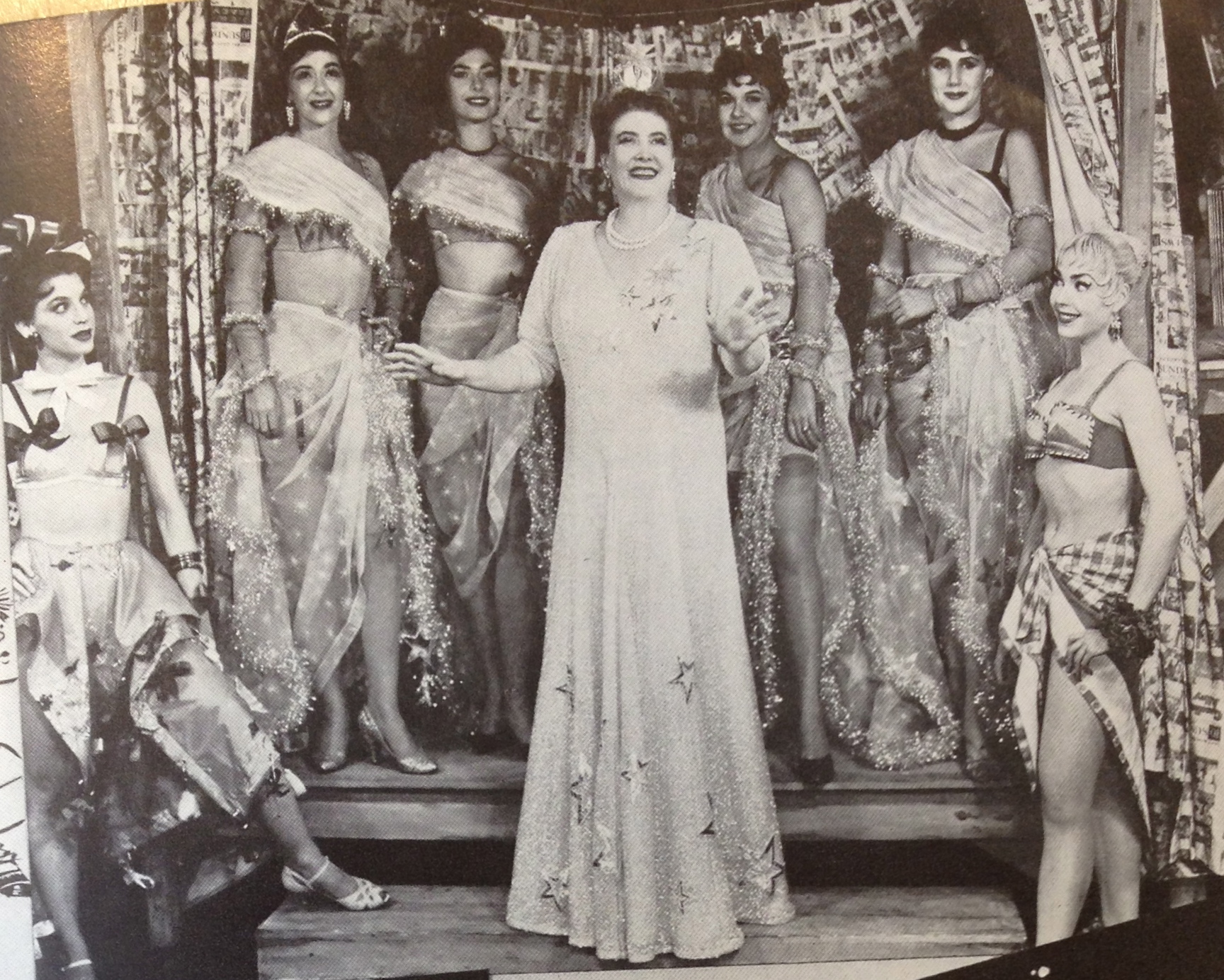 Helen Traubel as Fauna with some of her (prostitute) "girls". Presumably the Act 2 party scene.